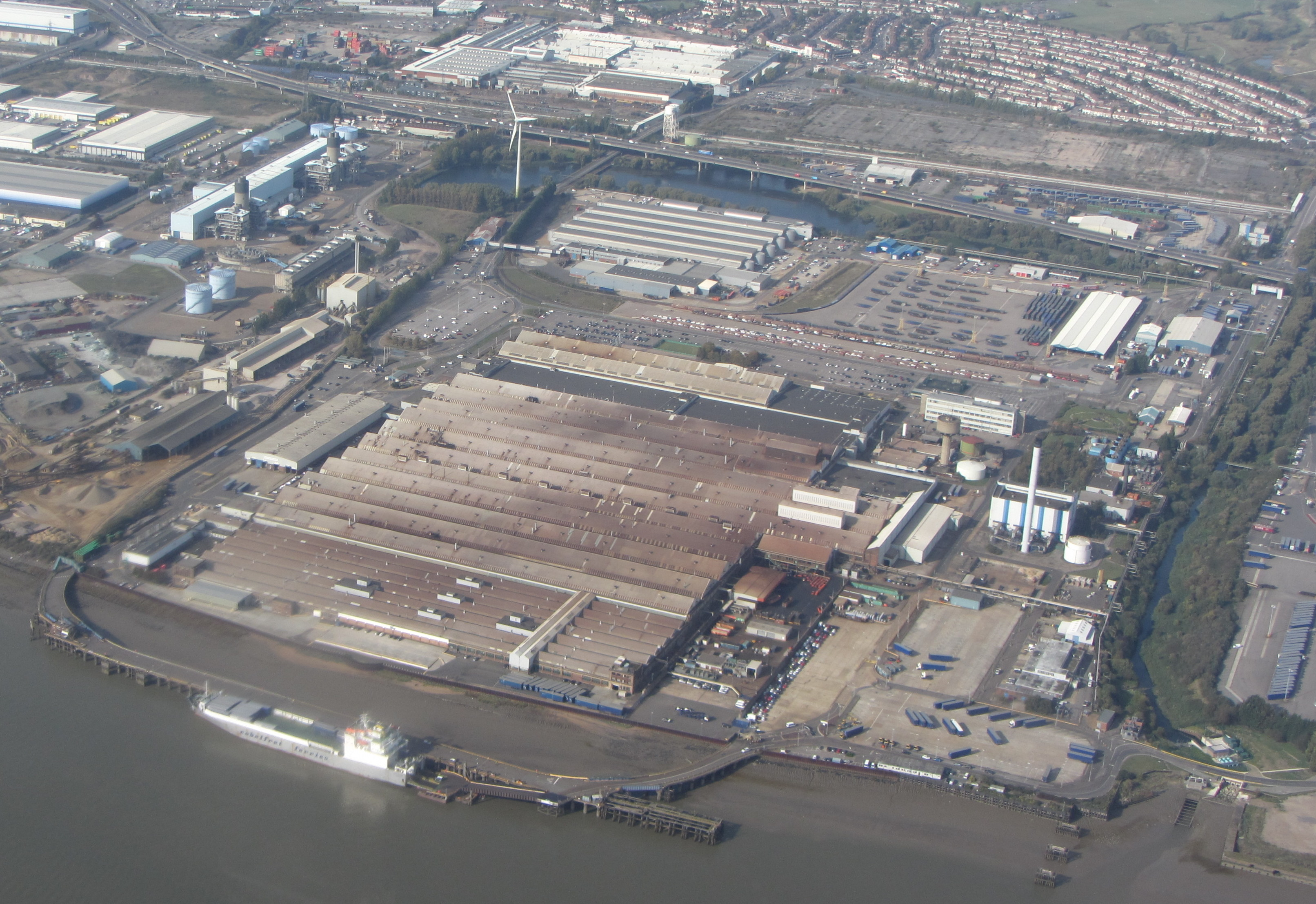 Ford's Dagenham works